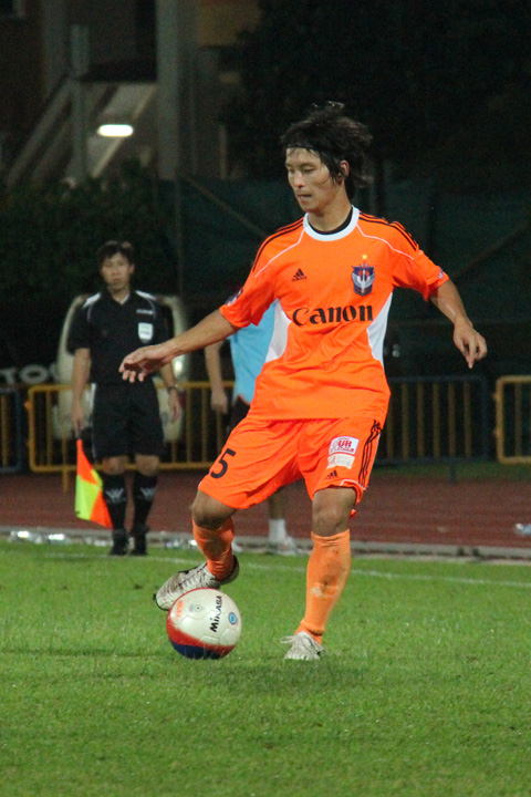 Takeshi Ito playing against Hougang United in an S.League fixture at Hougang Stadium on 13 April 2012.